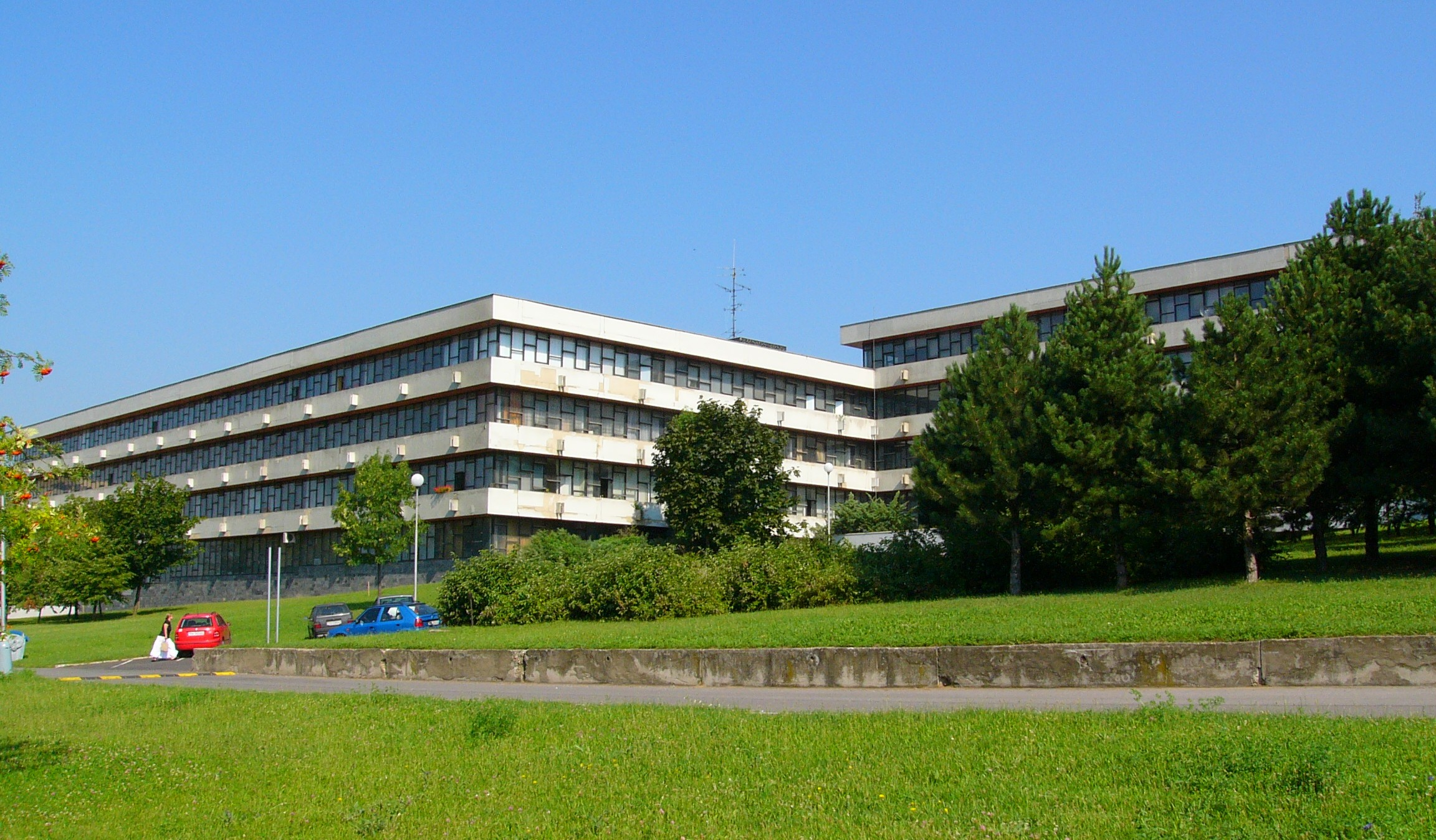 Buildings of FMFI UK, Bratislava, July 2008